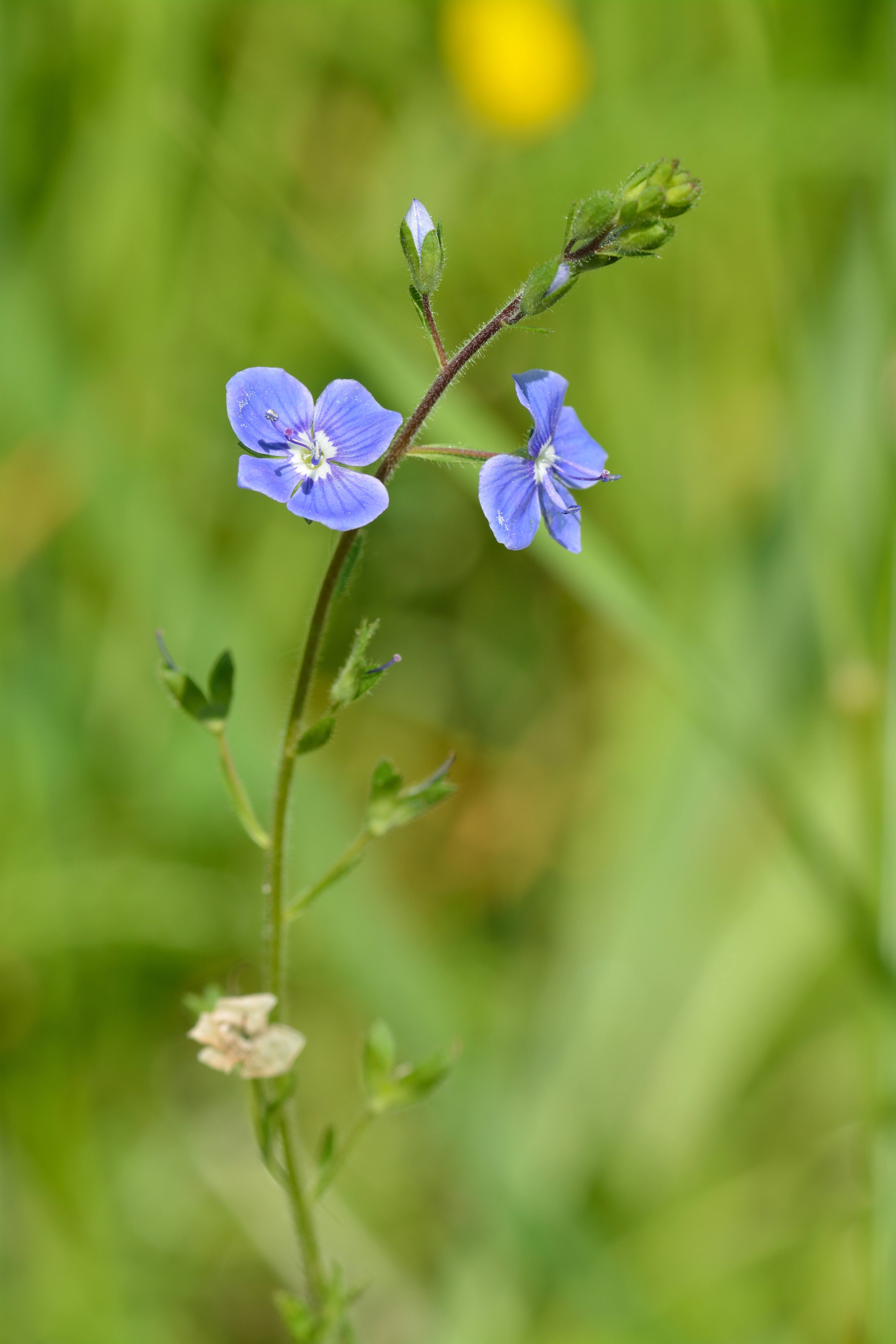 Veronica chamaedrys - Niitvälja, Northwestern Estonia